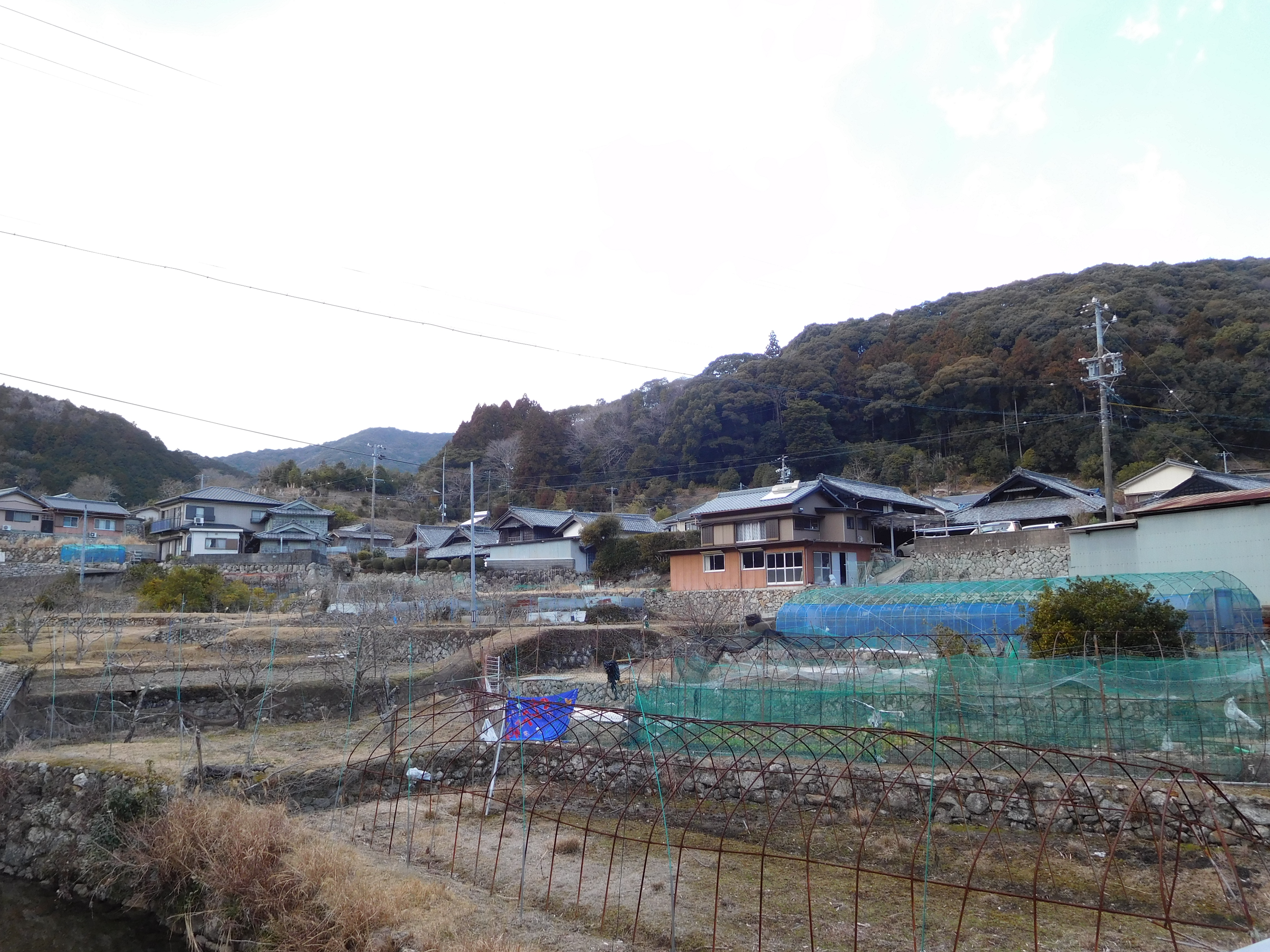 These are stone walls you can see in Isobecho-Gochi, Shima, Mie, Japan.